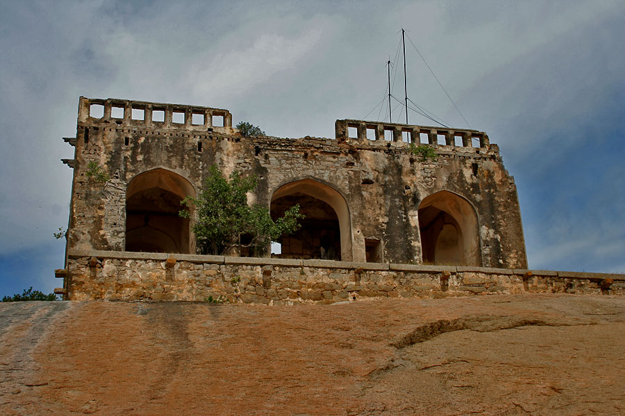 A view of Bhongir Fort, Andhra Pradesh, India.